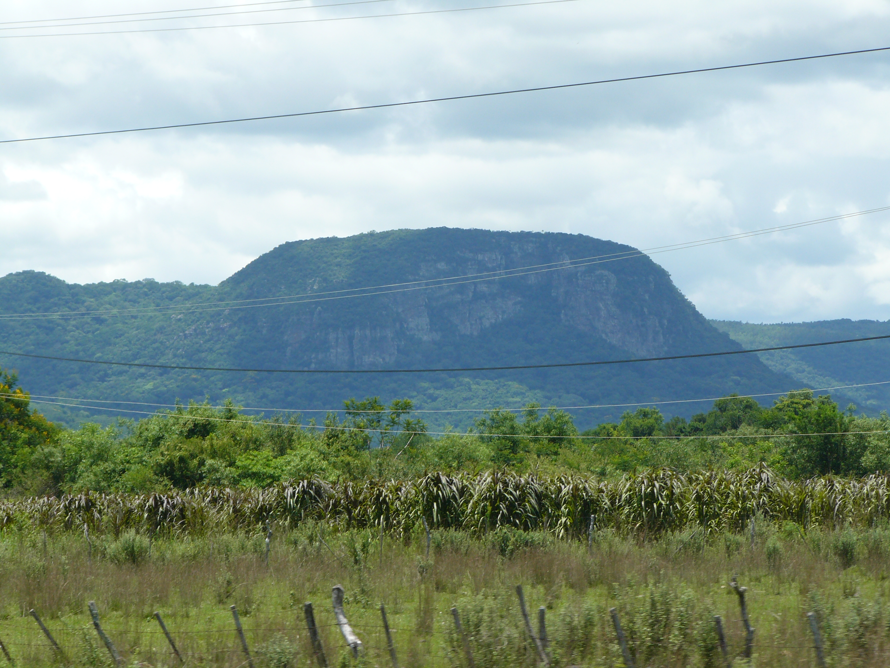 SERRANIA